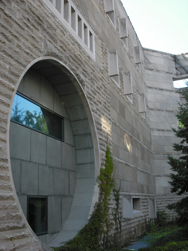 Facade of Ives Hall, Cornell University